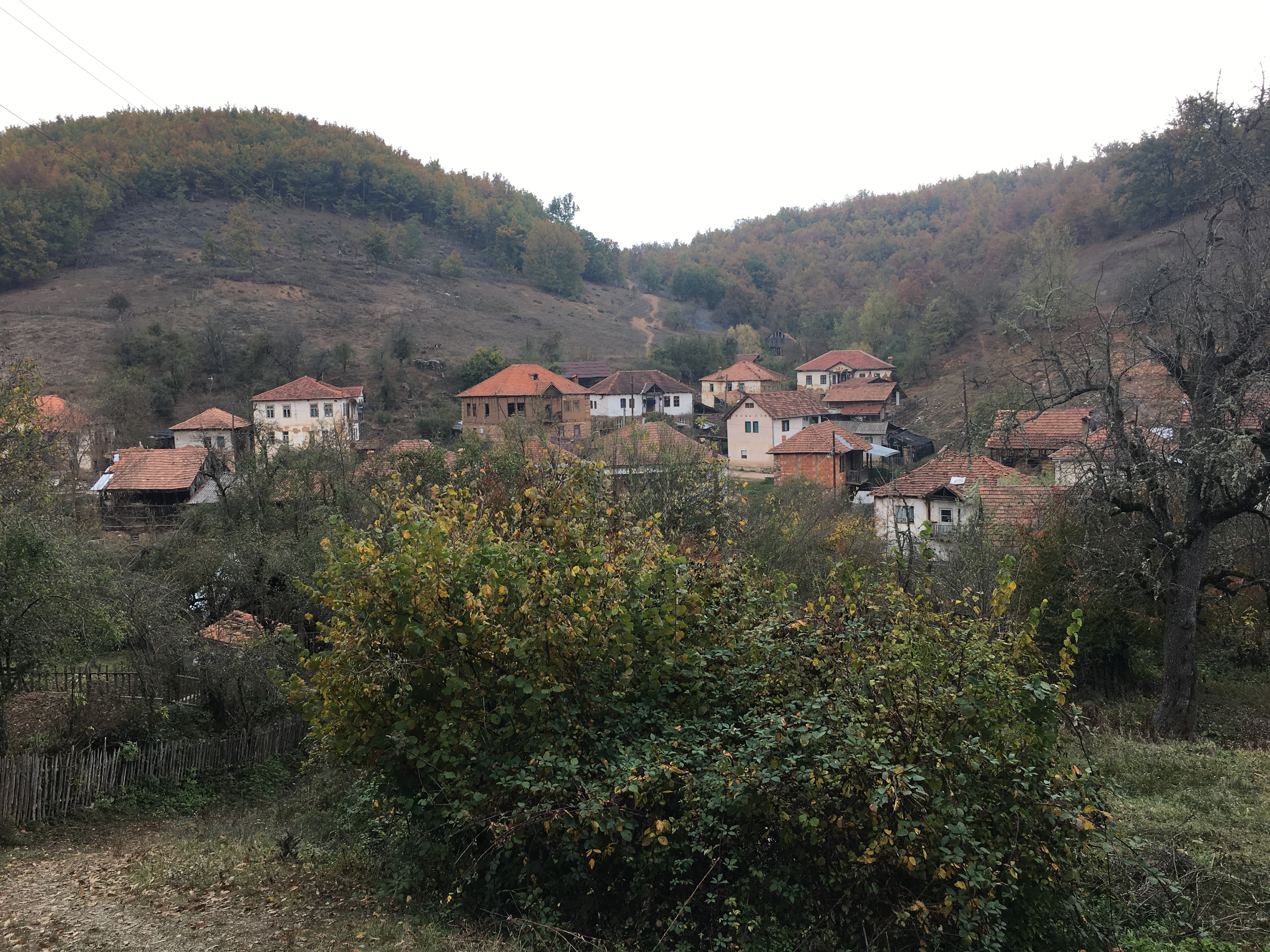 Wikiexpedition to Kopačka